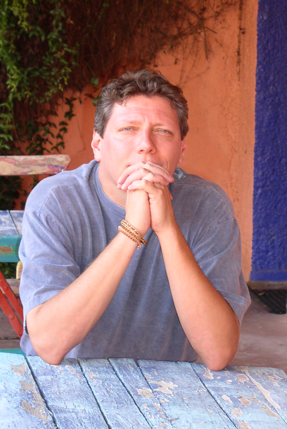 Portrait photograph of Devin Scillian